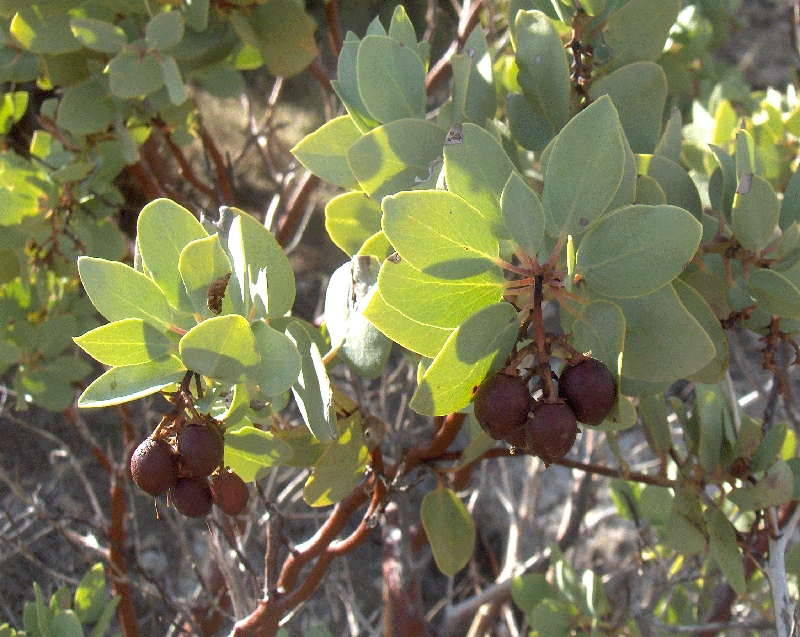 Greenleaf Manzanita in Joshua tree NP.